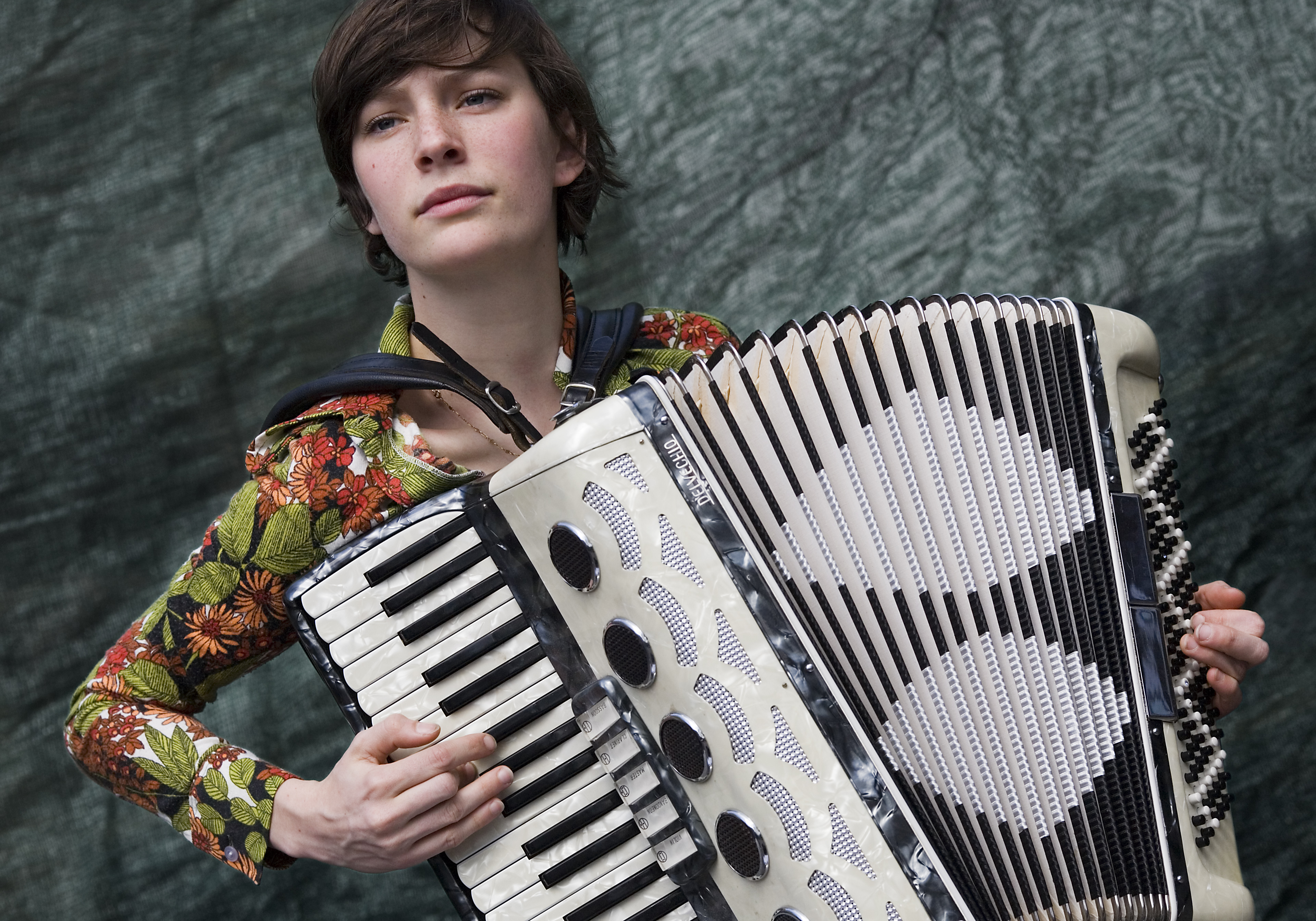 Accordion Player, Paris